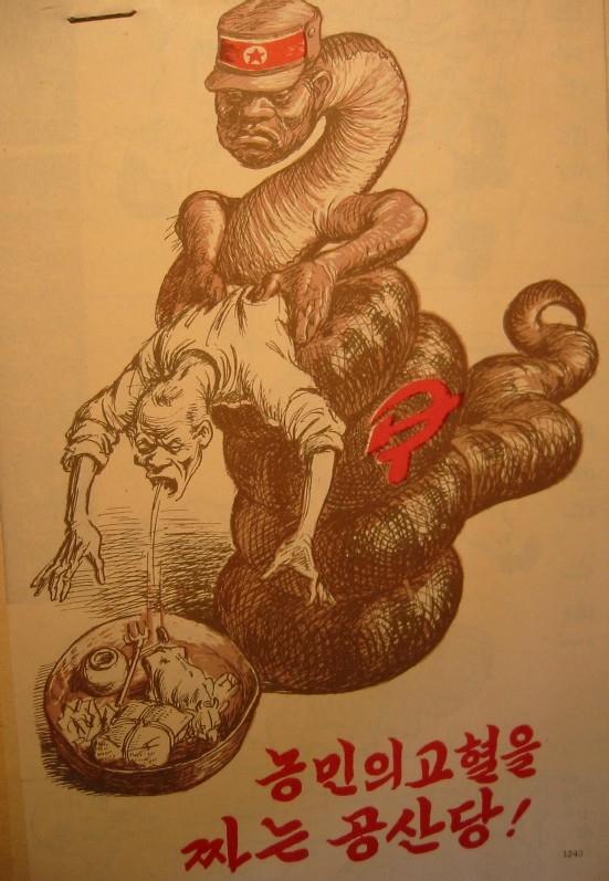 South Korean Leaflet from the Korean War